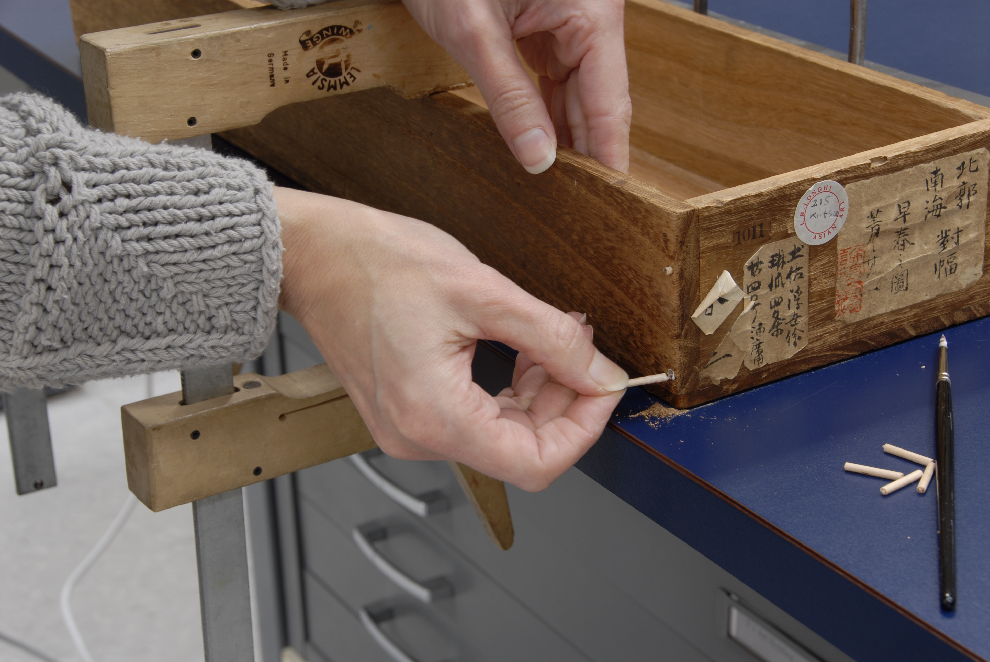 IMA Conservation technician repairing a Japanese scroll box. "Courtesy of the Indianapolis Museum of Art".